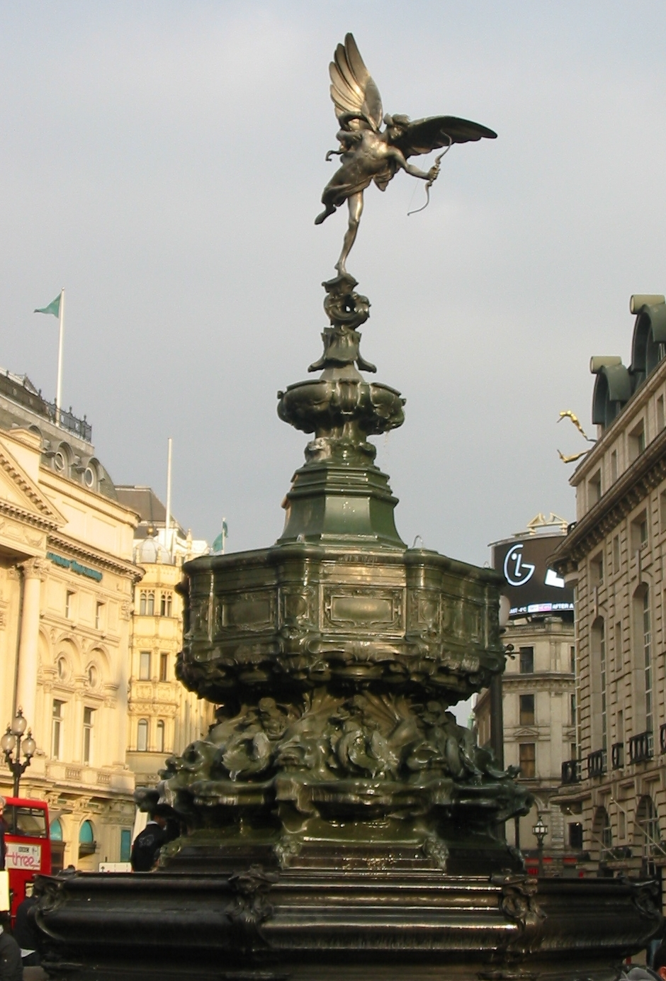 London